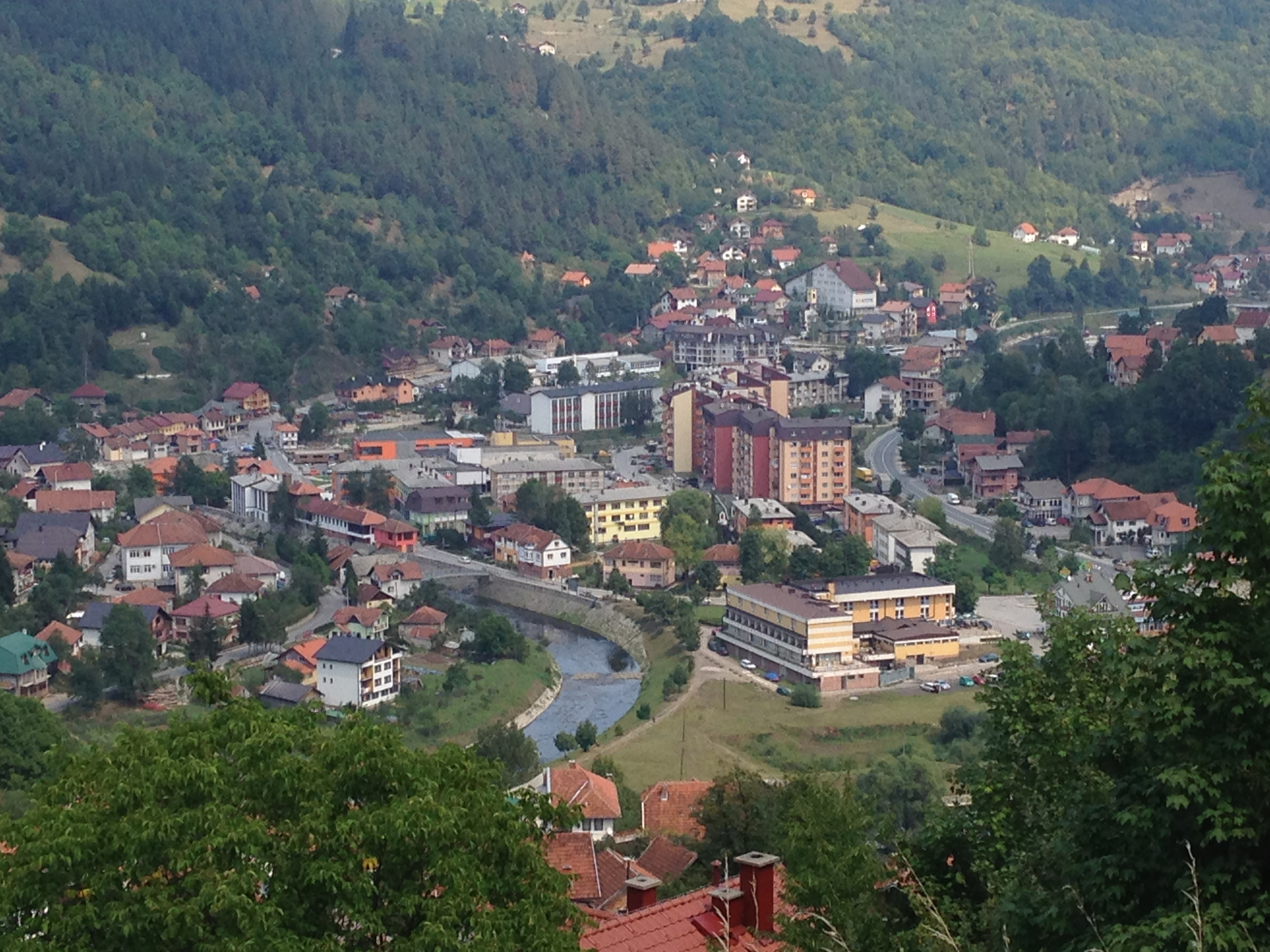 Panorama Olova iz Panorame